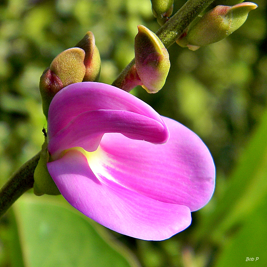 Beach Beans ambushed me near the Juno Beach Pier this morning. This vine was blooming right along the wooden stairway over the dune line. They really are that pink! This is the East (ocean) side of Juno Dunes Natural Area. I was chased here from the West trail by bloodthirsty mosquitoes, resulting in this happy encounter :-) Beach bean is an important beach dune stabilizer.